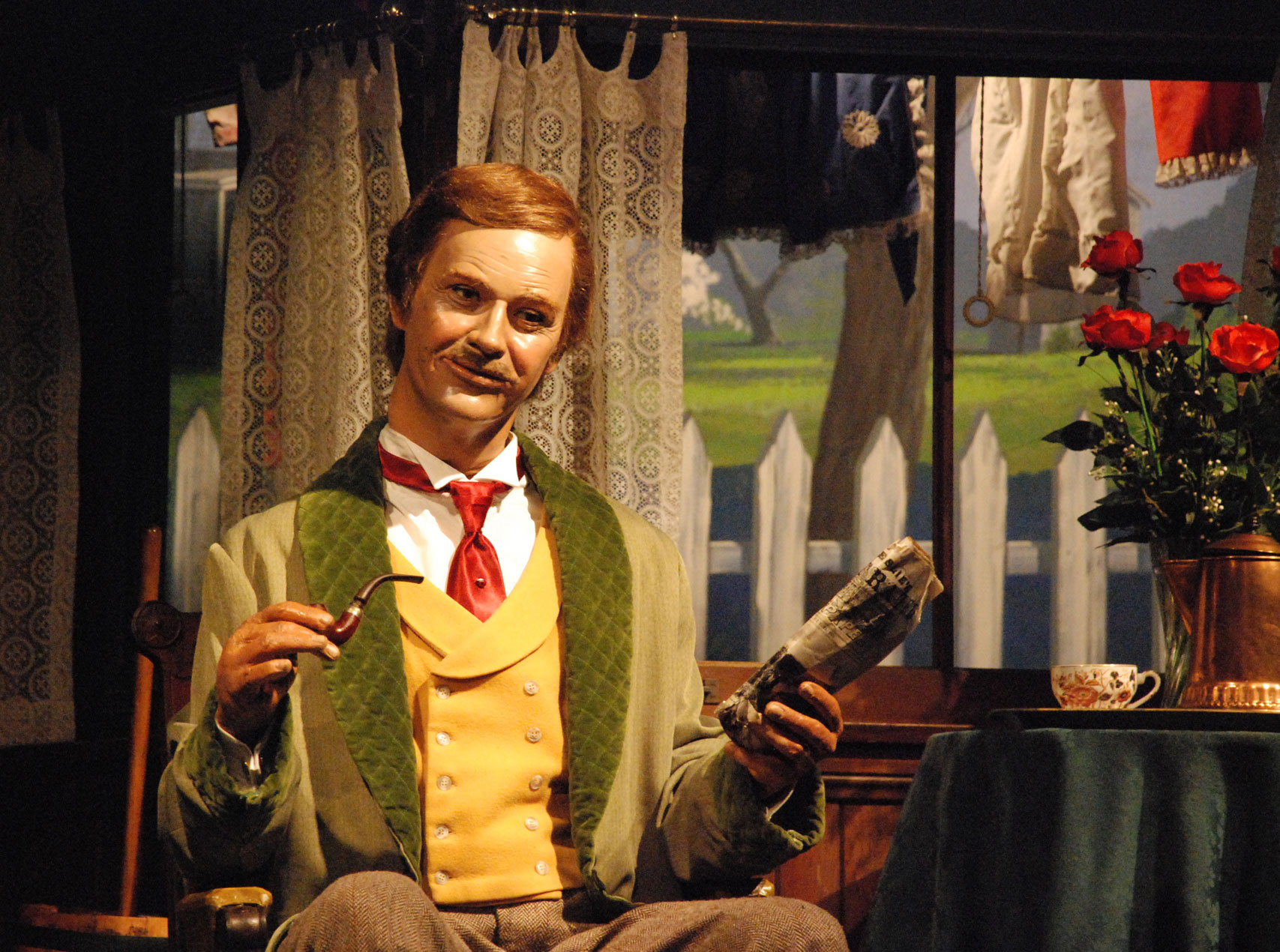 Walt Disney World - Carousel of Progress - circa 1900